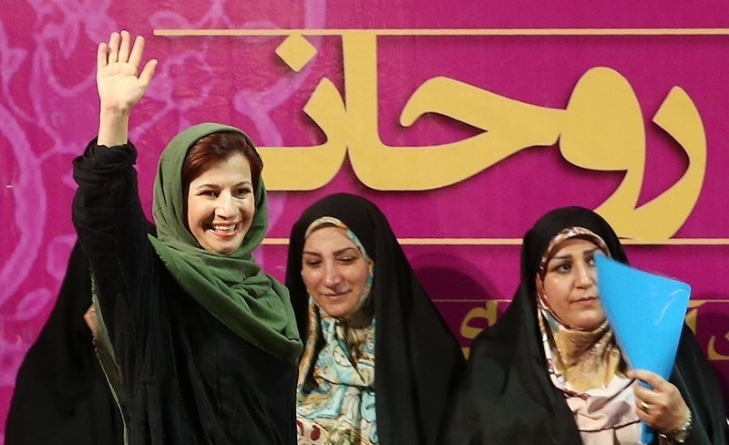 Leili Rashidi at Hassan Rouhani presidential campaign's women faction rally at Tehran's Shahid Shiroudi Hall